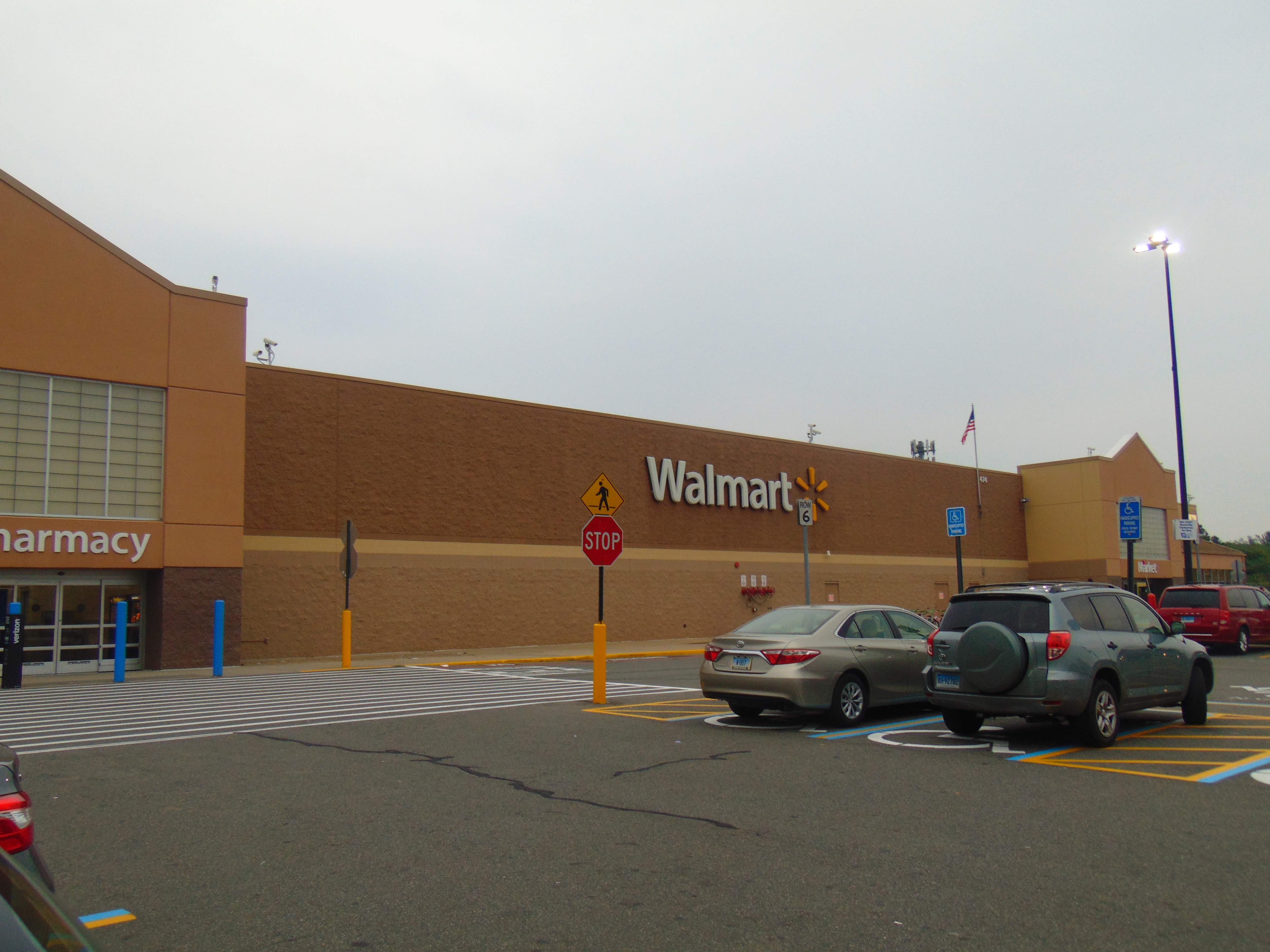 A 1990s Walmart Supercenter located in North Windham, Connecticut.